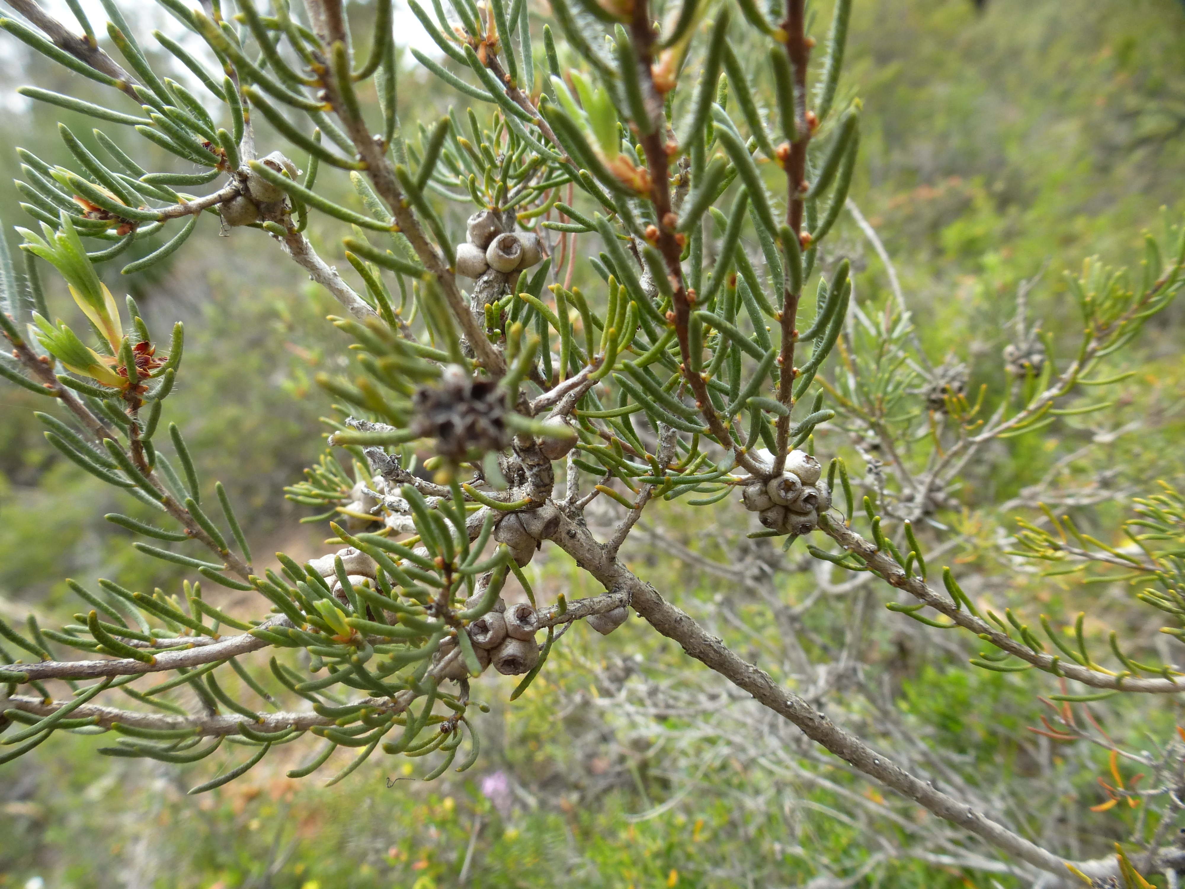 Melaleuca holosericea near West Toodyay Road, Julimar